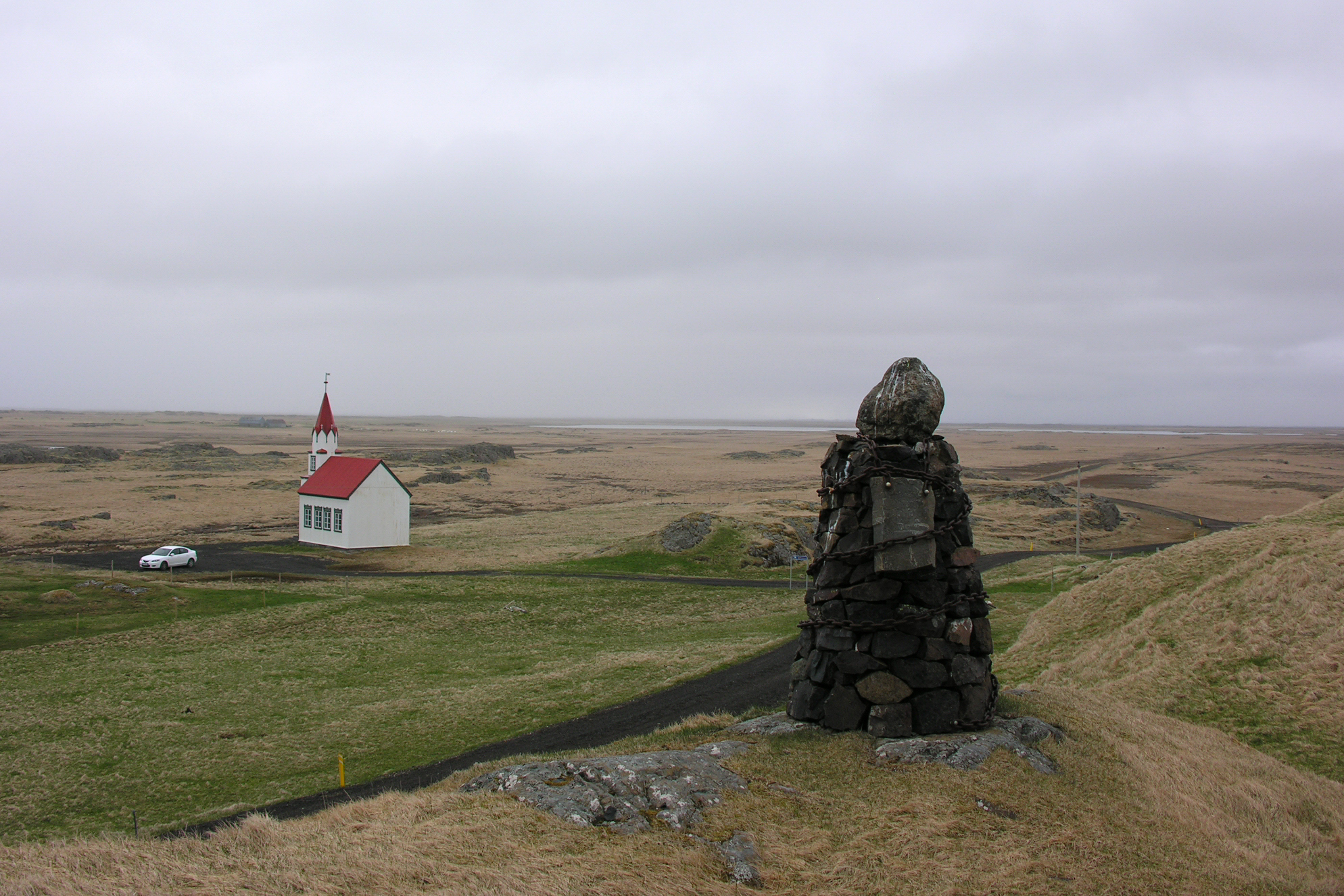 Iceland, views around Snæfellsnes peninsula